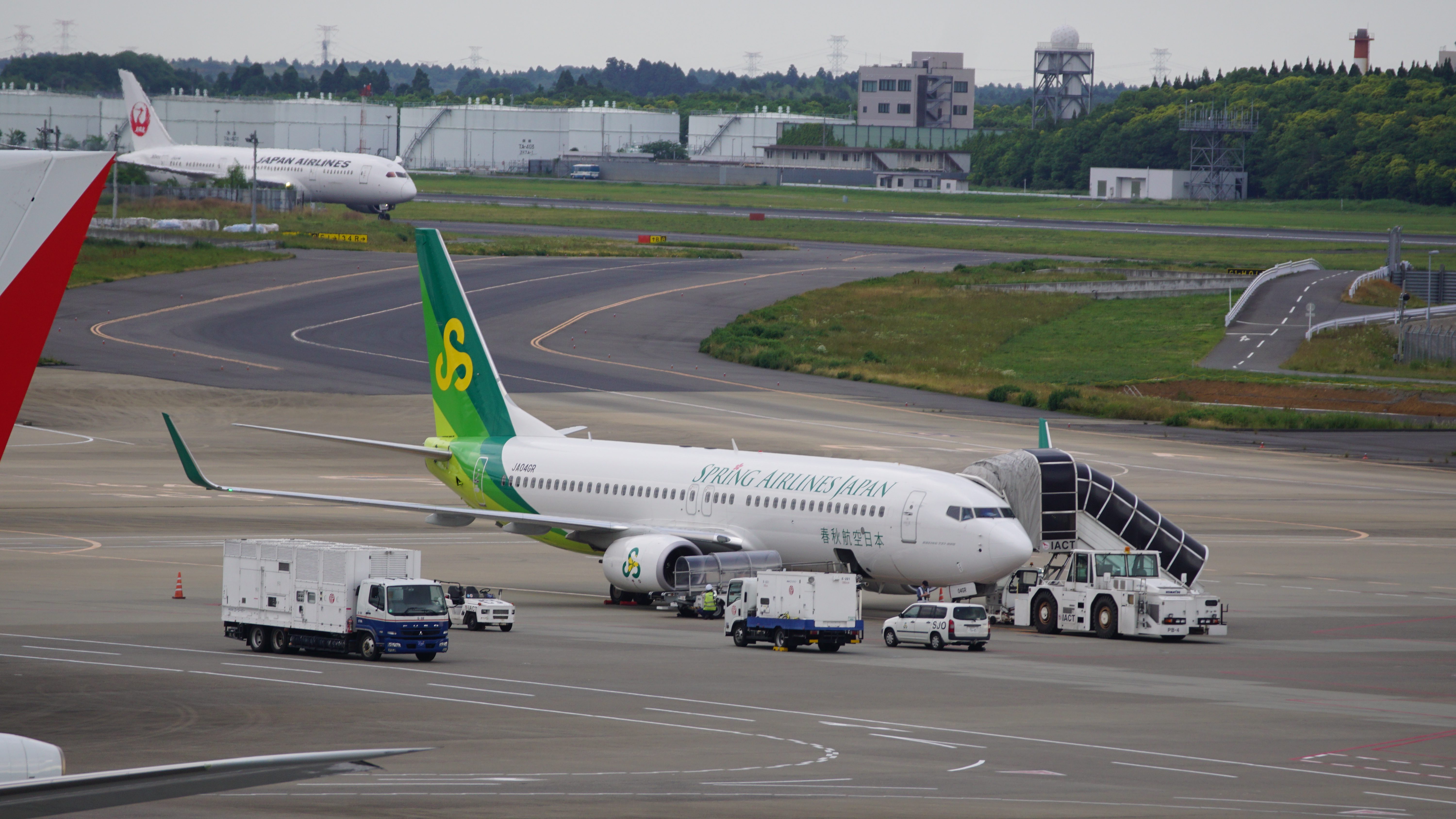 Spring Airlines B-737-800 at Narita in 2017